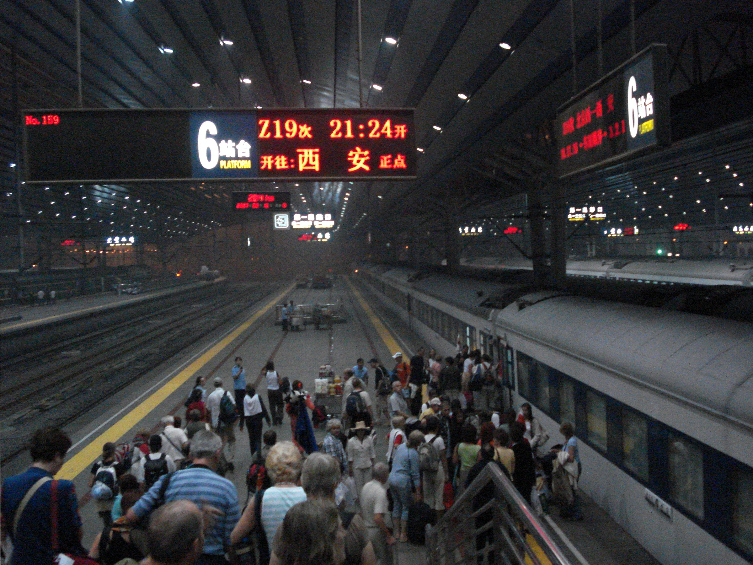 Bejing West Train Station